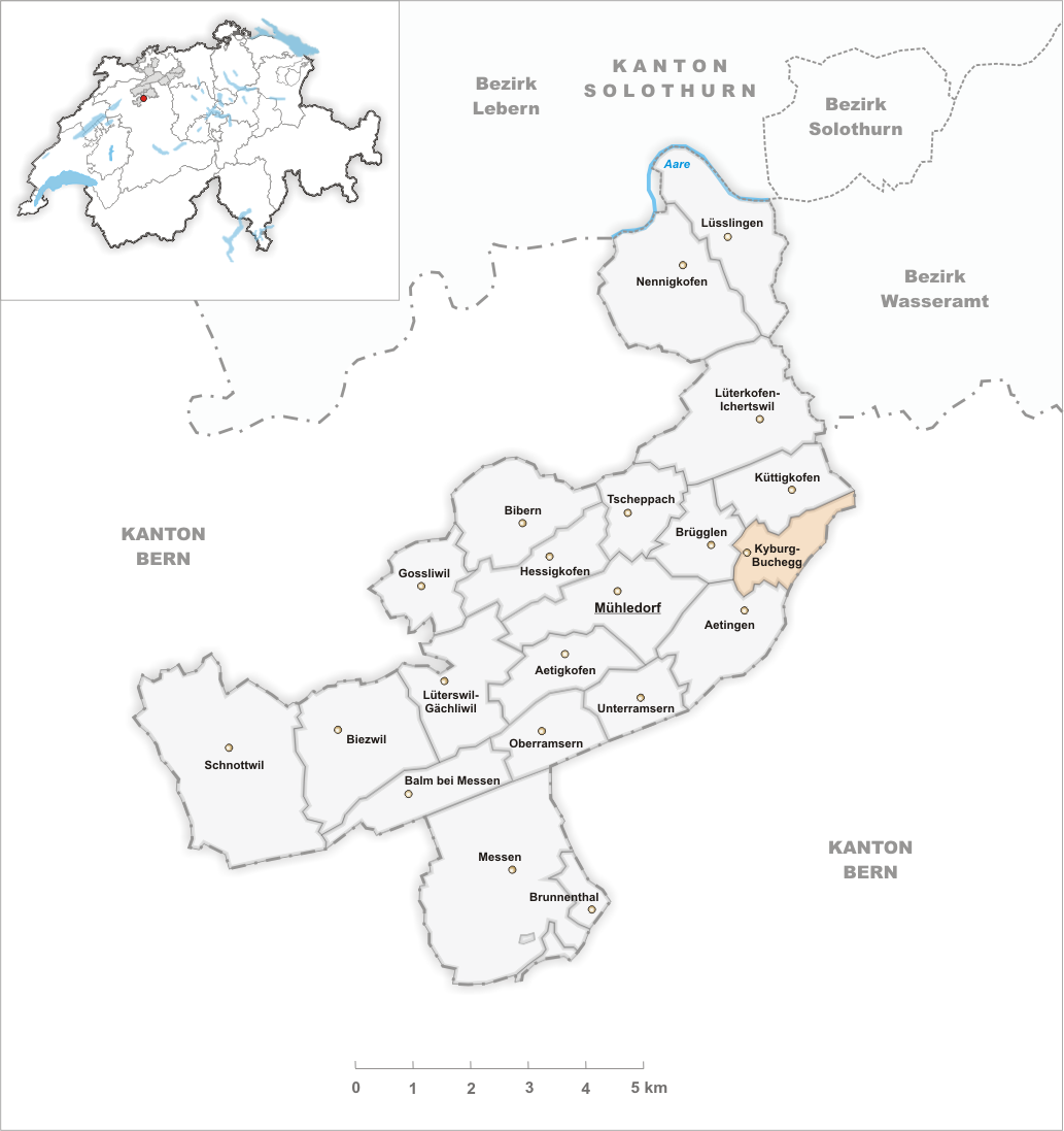 Municipality Kyburg-Buchegg